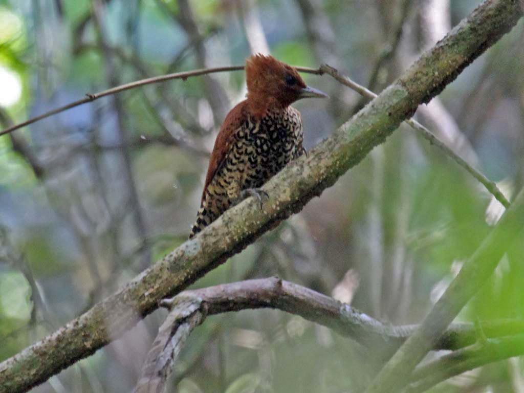 Cinnamon Woodpecker Celeus loricatus, Soberania National Park, Panama